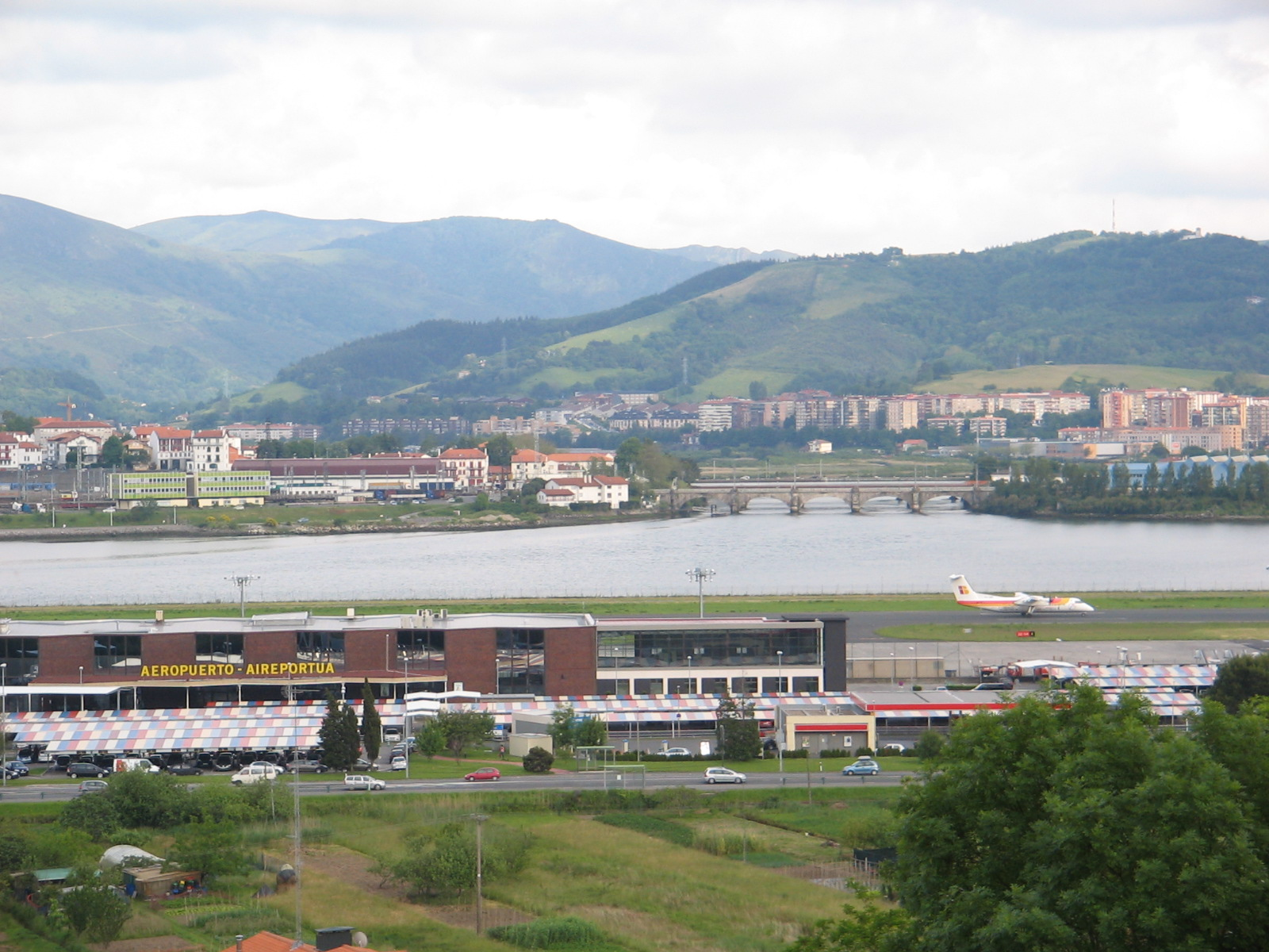 The San Sebastian Airport, Txingudi, the SNCF facilities in Hendaia, Irun and the Santiago Bridge spanning the Spain-France borderline